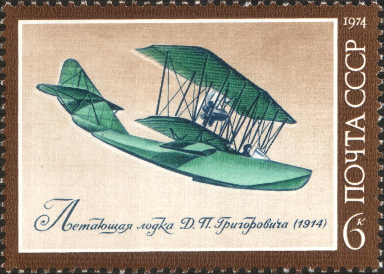 USSR stamp